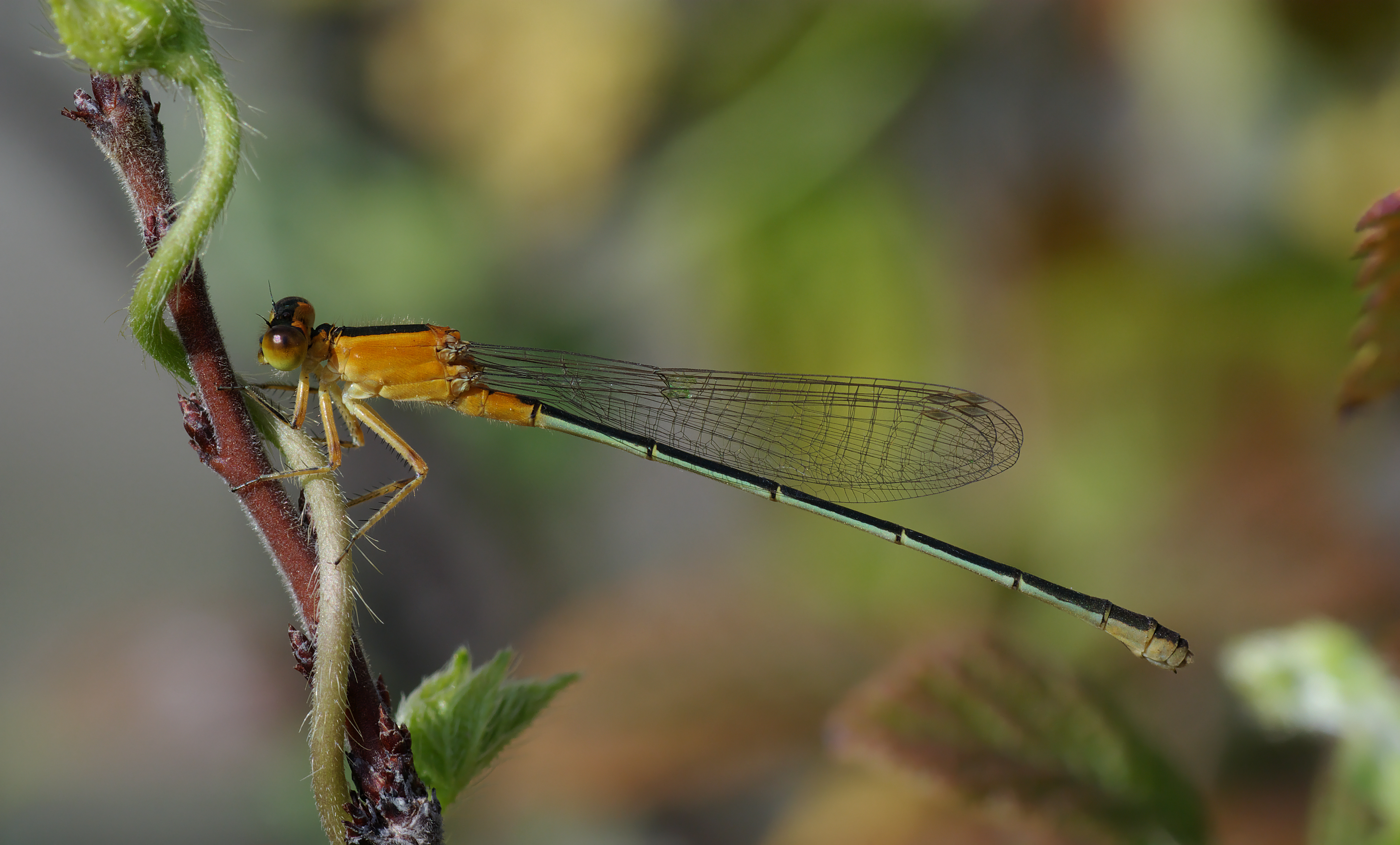 Common Bluetail, a widespread damselfly in Africa, the Middle East, Southern and Eastern Asia.